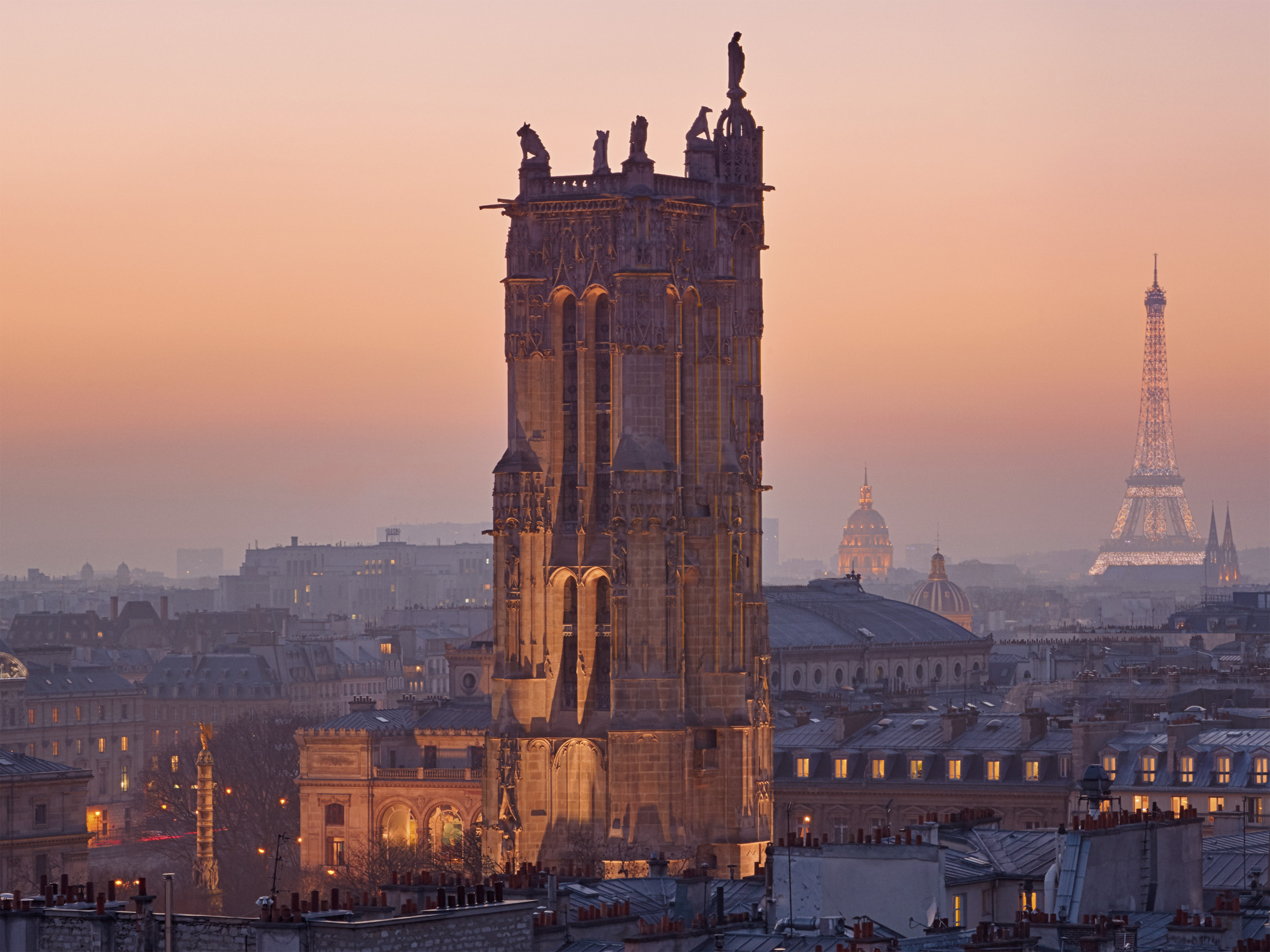 Saint-Jacques tower at dusk, Paris, France.